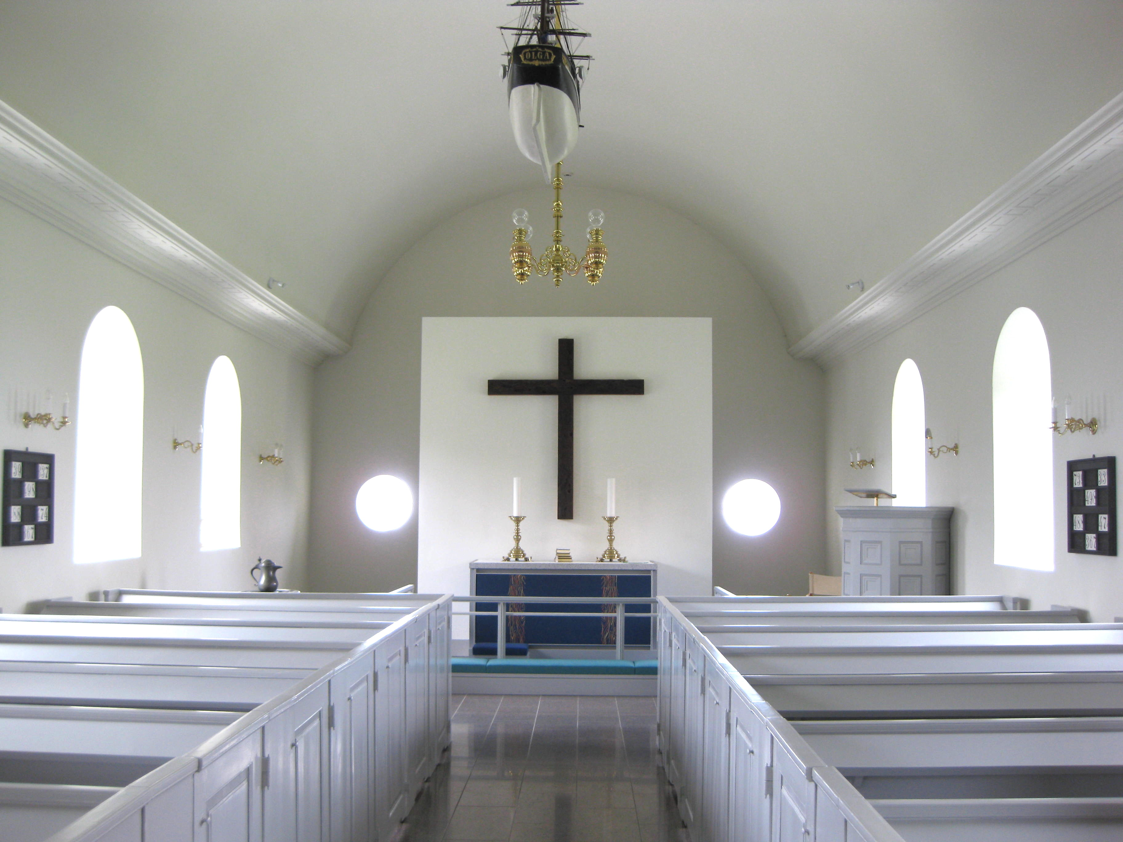 The church "Christiansø Kirke" seen from the inside. It is located on the island "Christiansø" in the Baltic Sea app. 20 kilometres from the town "Gudhjem" on the island Bornholm in east Denmark.